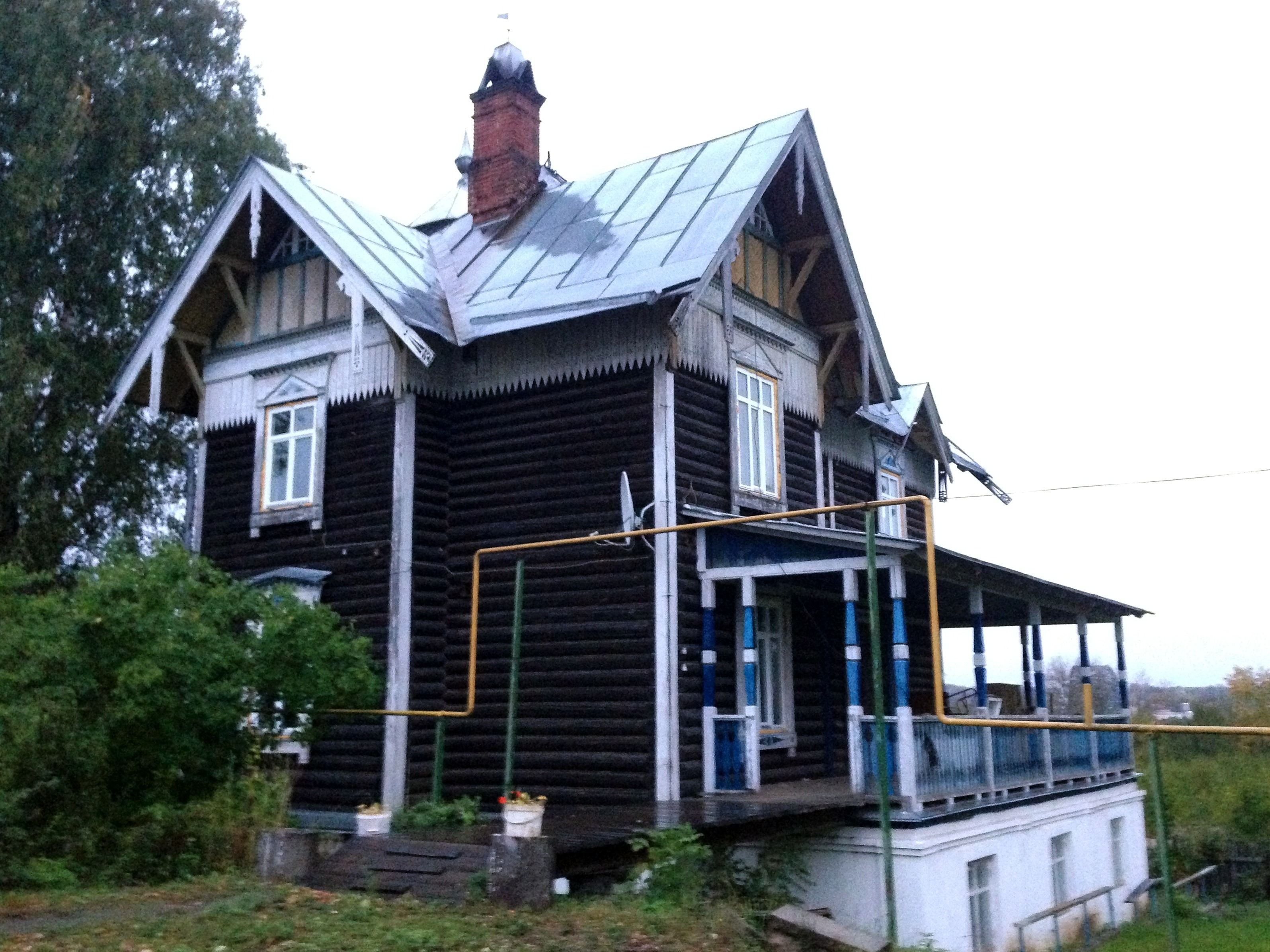 the Nagorsky house (1909-1914) in Kineshma, Russia